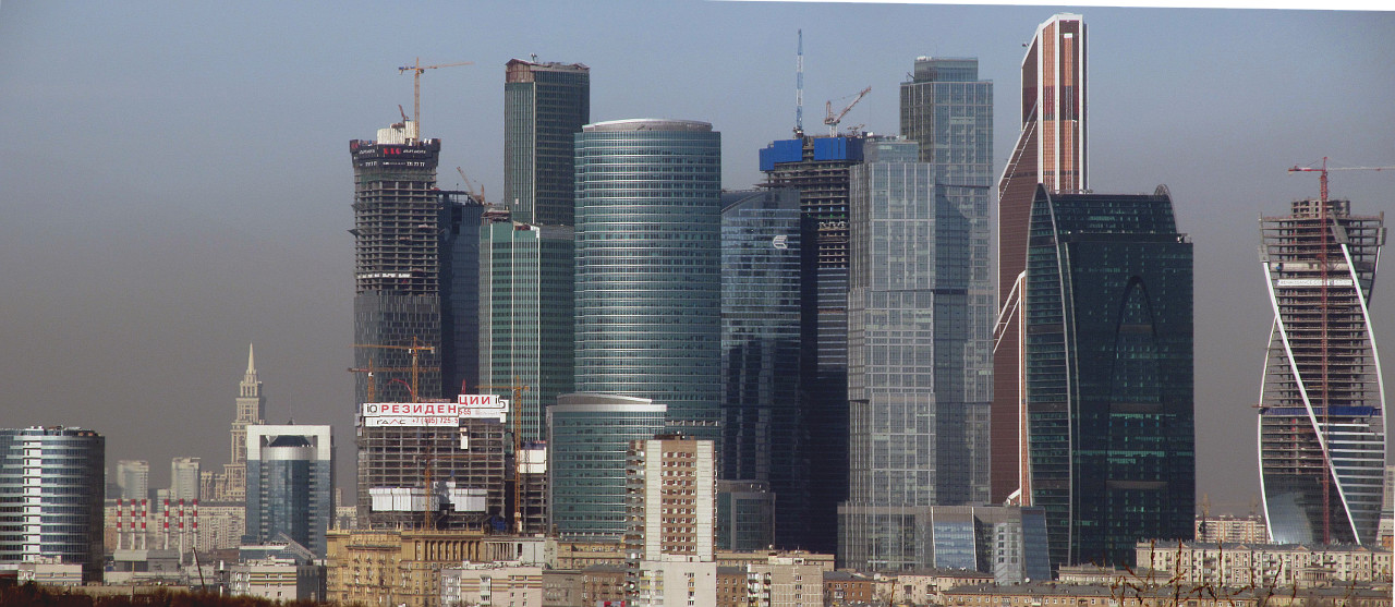 Moscow International Business Center (MIBC), photo taken from Sparrow Hills (Vorobyovy Gory, former Lenin Hills) on 26 february, 2014